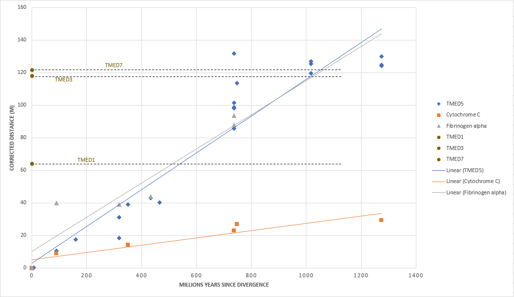 TMED5 evolutionary graph to show ortholog space. 3 paralogs are shown to see where they fall in evolutionary rate compared to TMED5. TMED5 is compared to Cytochrome C which represents a slow evolutionary rate, and Fibrinogen alpha which represents a fast evolutionary rate.